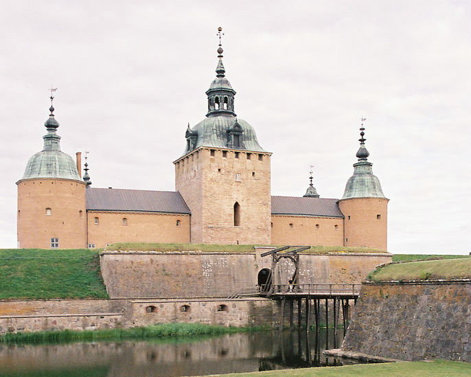 Description: Kalmar castle, Kalmar, Sweden *Photographer: Banggoesanotherday *Source: *Date: July 7, 2005 *License: Cc-by-sa-2.0